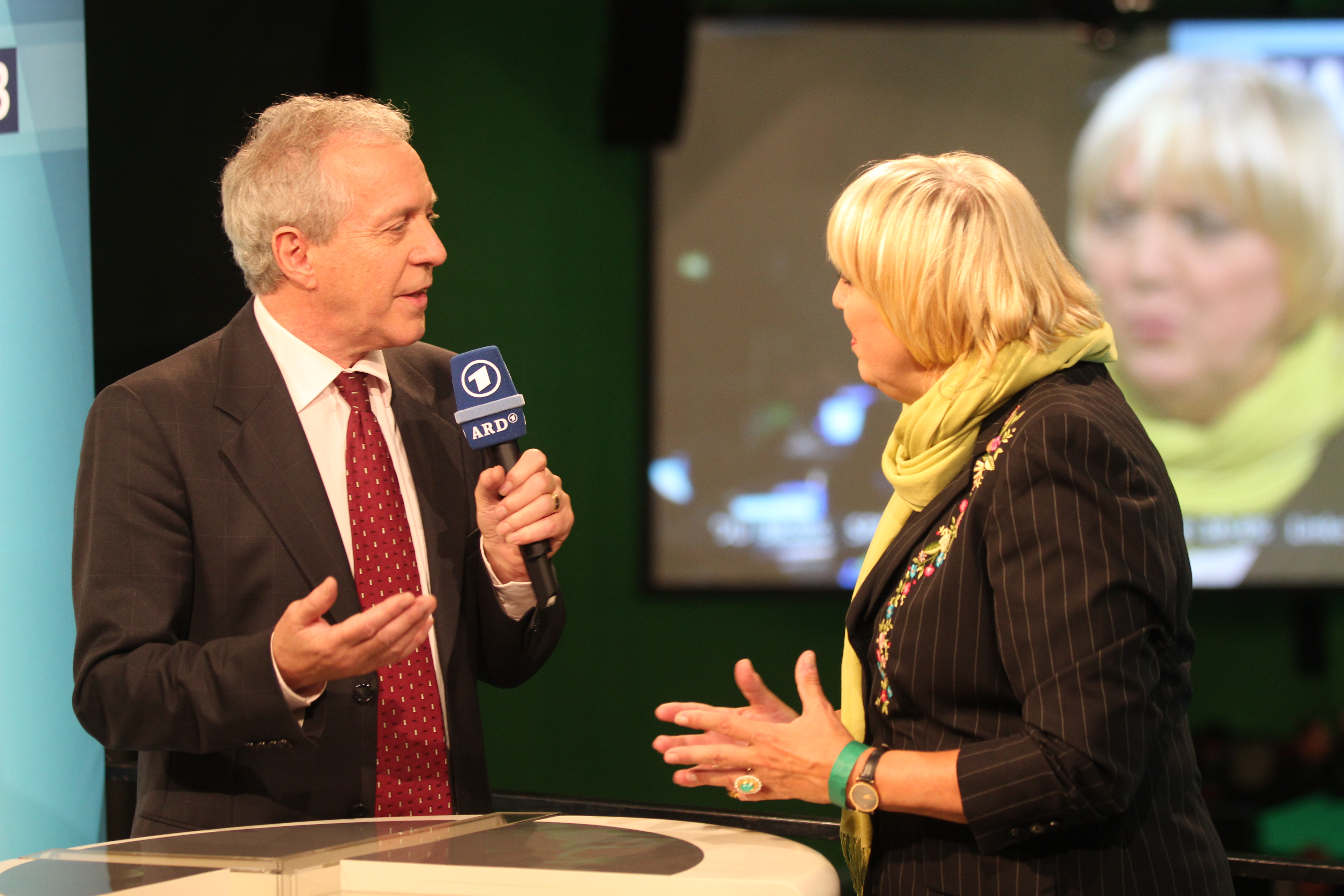 The federal election party Alliance '90/The Greens for the parliamentary election in 2013 Hans Jessen interviewing Claudia Roth